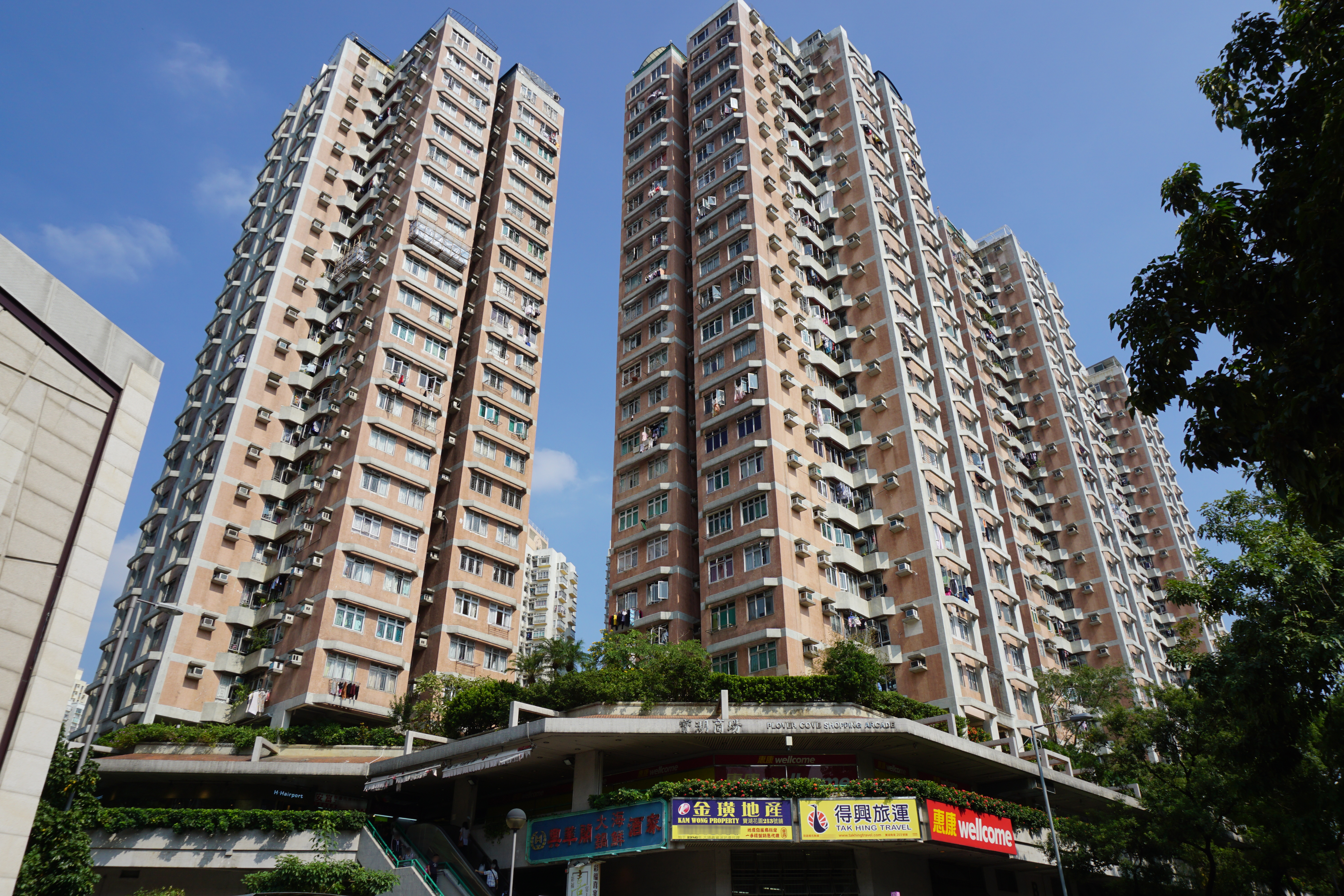 寶湖花園 Plover Cove Garden in Tai Po, Hong Kong.